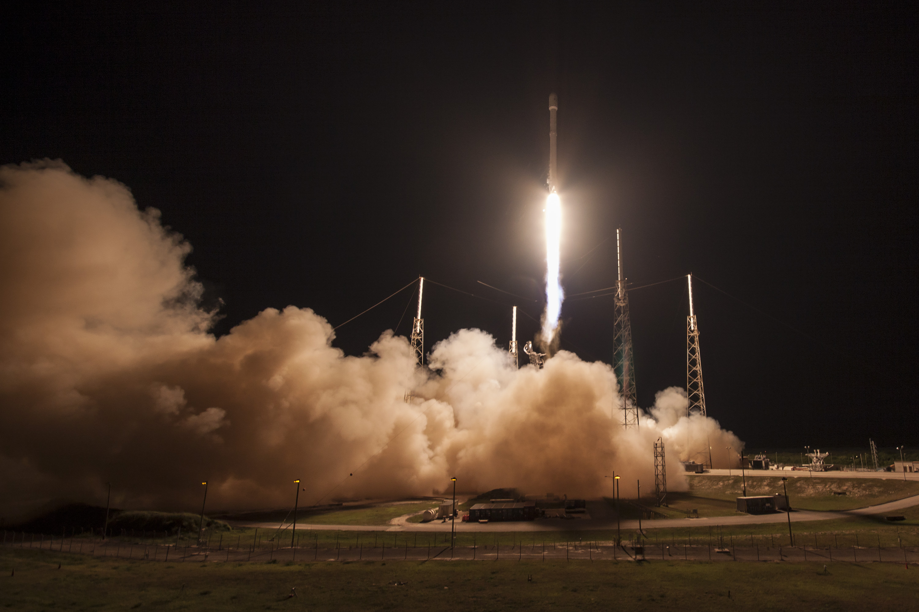 JCSAT-14 Launch